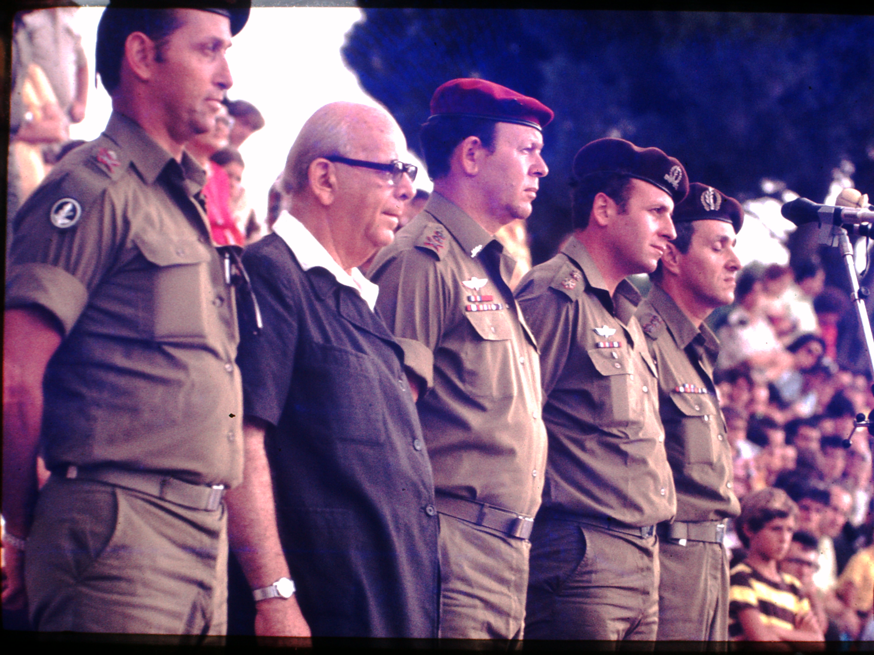 Aluf Herzl Shafir,, Rav-Aluf Mordechai Gur and two other officers in the Haifa Military Boarding School graduation ceremony, the late 70's.